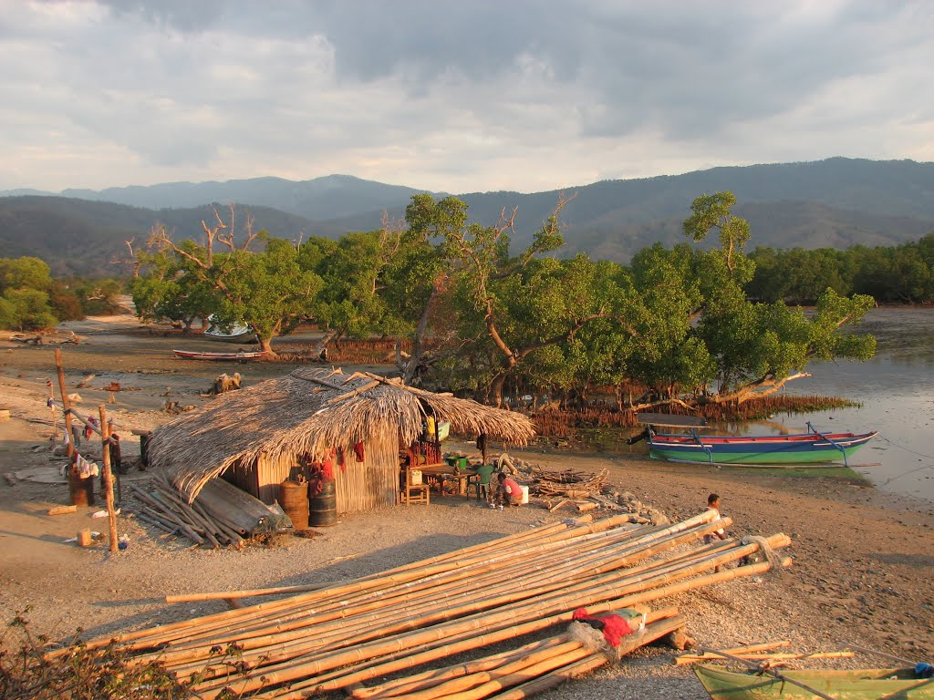 Aquaculture salt and fishponds at Tibar, and extensive mature mangrove patch (8-10 m tall) Dili Timor-Leste